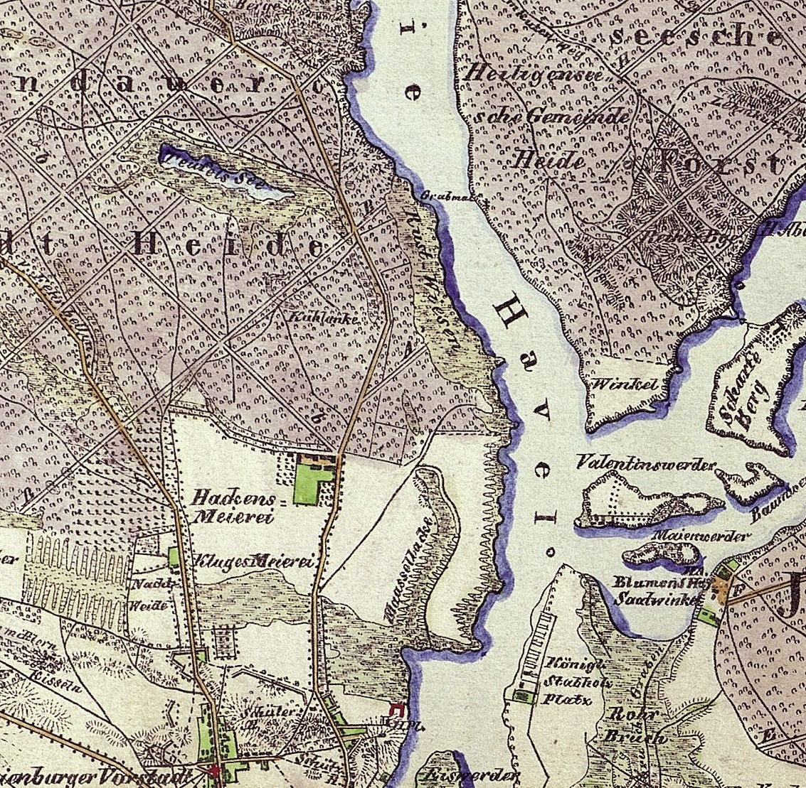 Spandauer Forst, river Havel and Tegeler See, map from 1842 . Today part of Berlin.